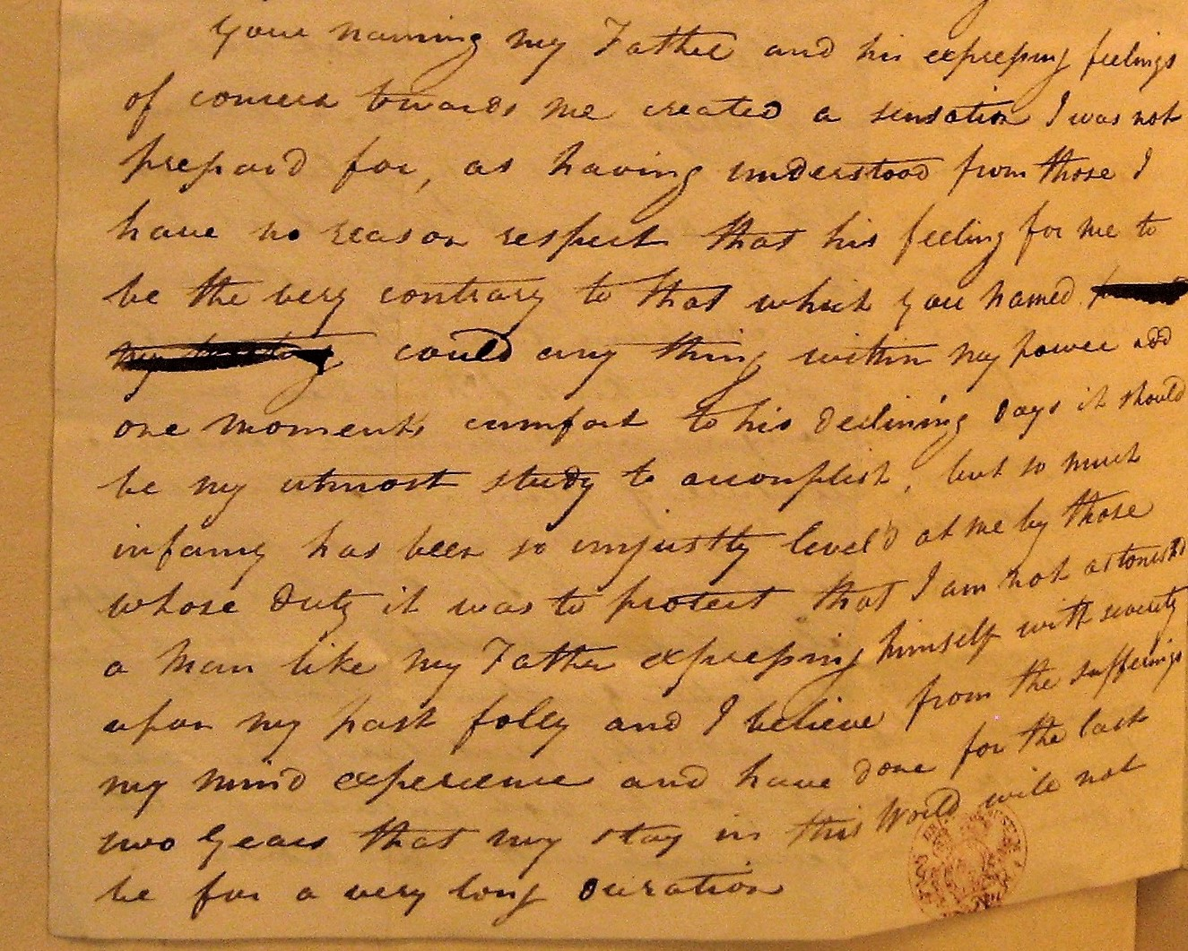 Part of George Vincent's letter to William Davey (27th July 1824), referring to his "past folly" ( for full text) (British Library Reference: Add MS 37030)